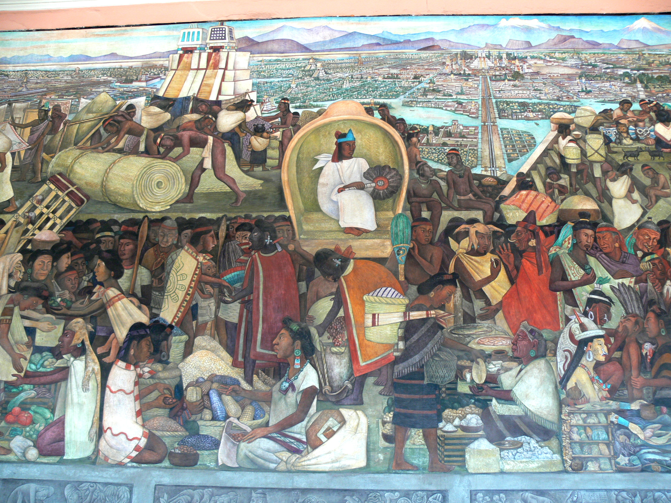 Mexico City - Palacio Nacional. Mural by Diego Rivera showing the life in Aztec times e.g. the market of Tlatelolco.